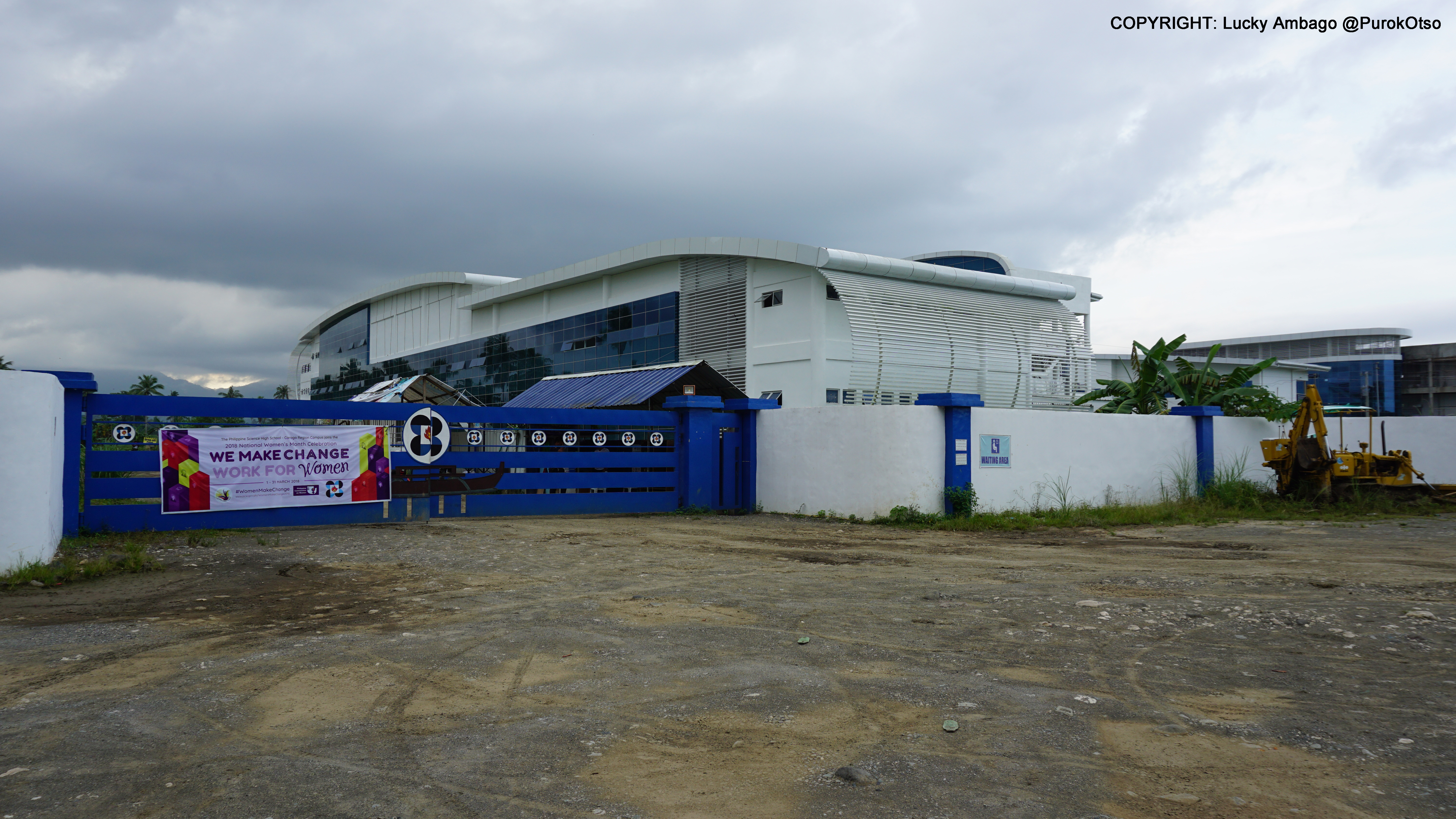 The main gate facade of the Philippine Science High School - Caraga Region Campus.